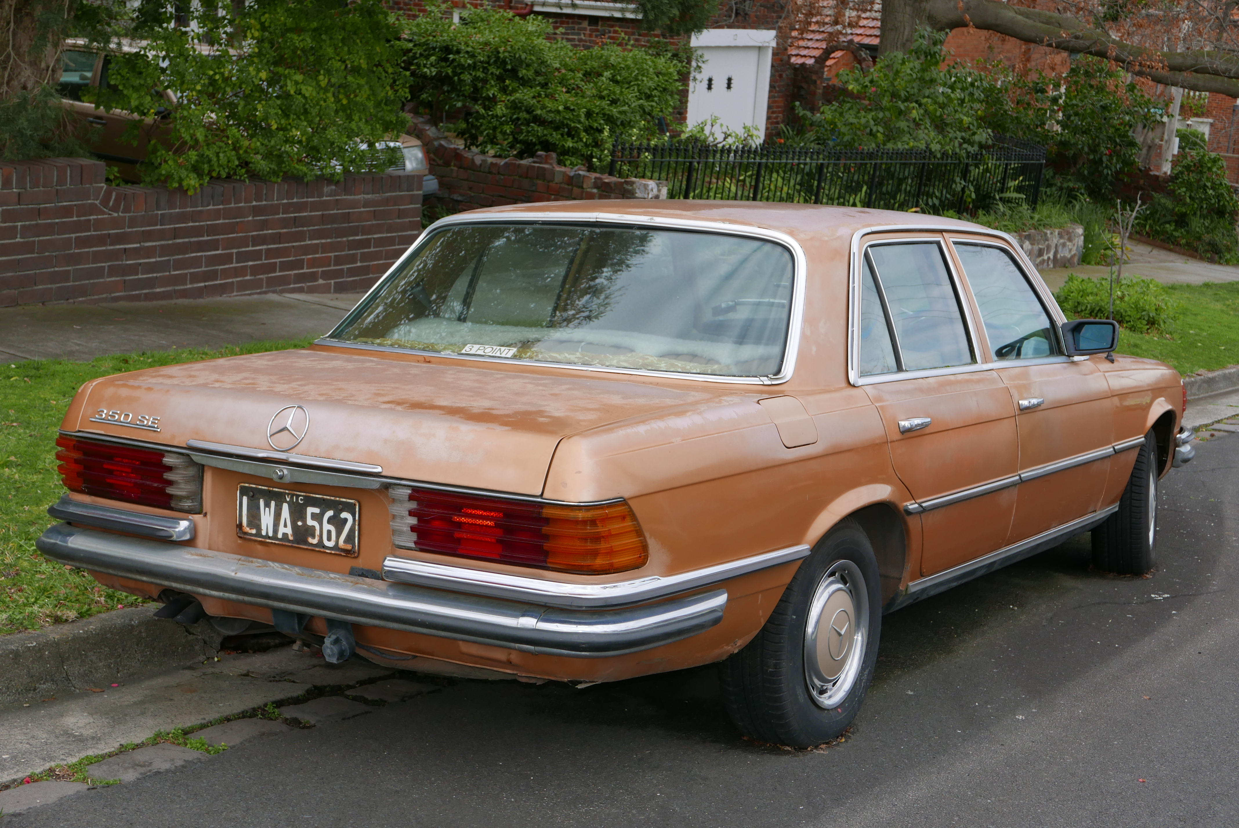 1972 Mercedes-Benz 350 SE (W 116) sedan. Photographed in Kew, Victoria, Australia. Vehicle registration enquiry results Jurisdiction Victoria Registration LWA562 Chassis code Not available Engine code 11698022006712 Compliance date Not available Year of manufacture 1972